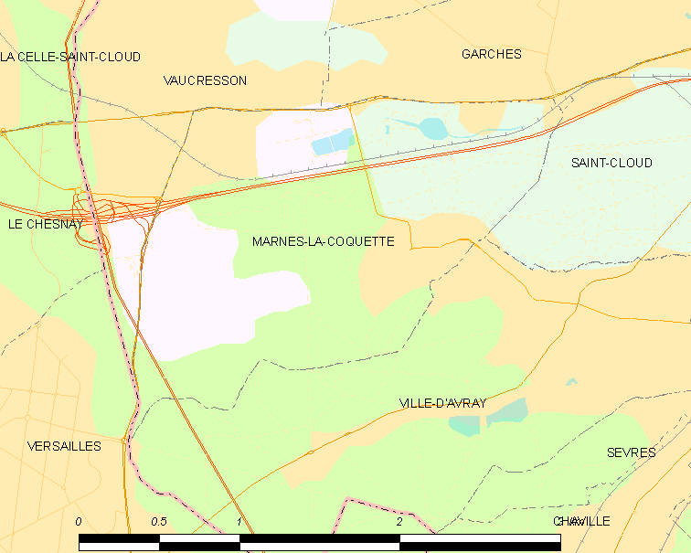 Map of French municipality Marnes-la-Coquette